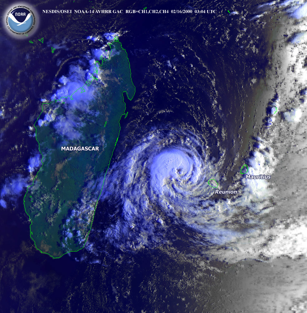 Tropical Cyclone 11S (Leon-Eline) is moving to the west in the Indian Ocean northwest of Reunion Island. Maximum sustained winds are at 65 kt.